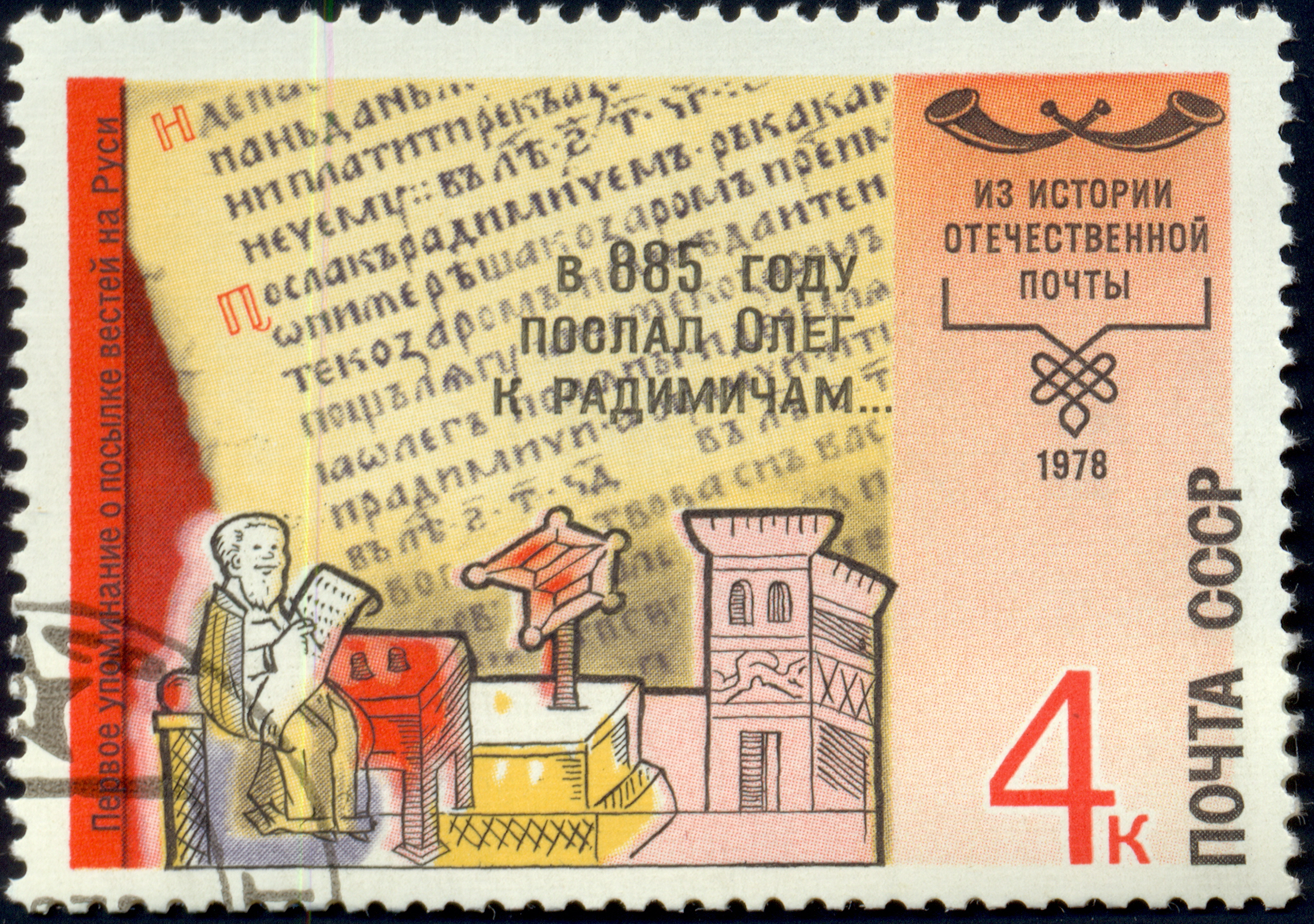 USSR stamp, Russian postal history, 1978, 4 kop.